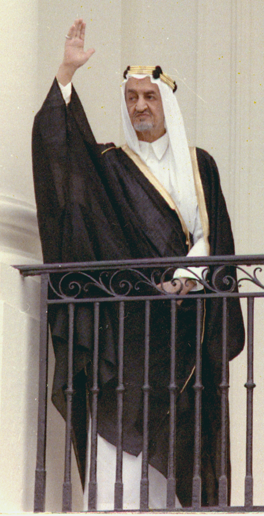 King Faisal of Saudi Arabia on arrival ceremony welcoming.